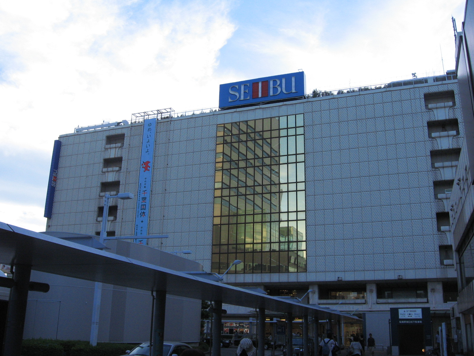 Seibu Department store in Funabashi, Chiba.